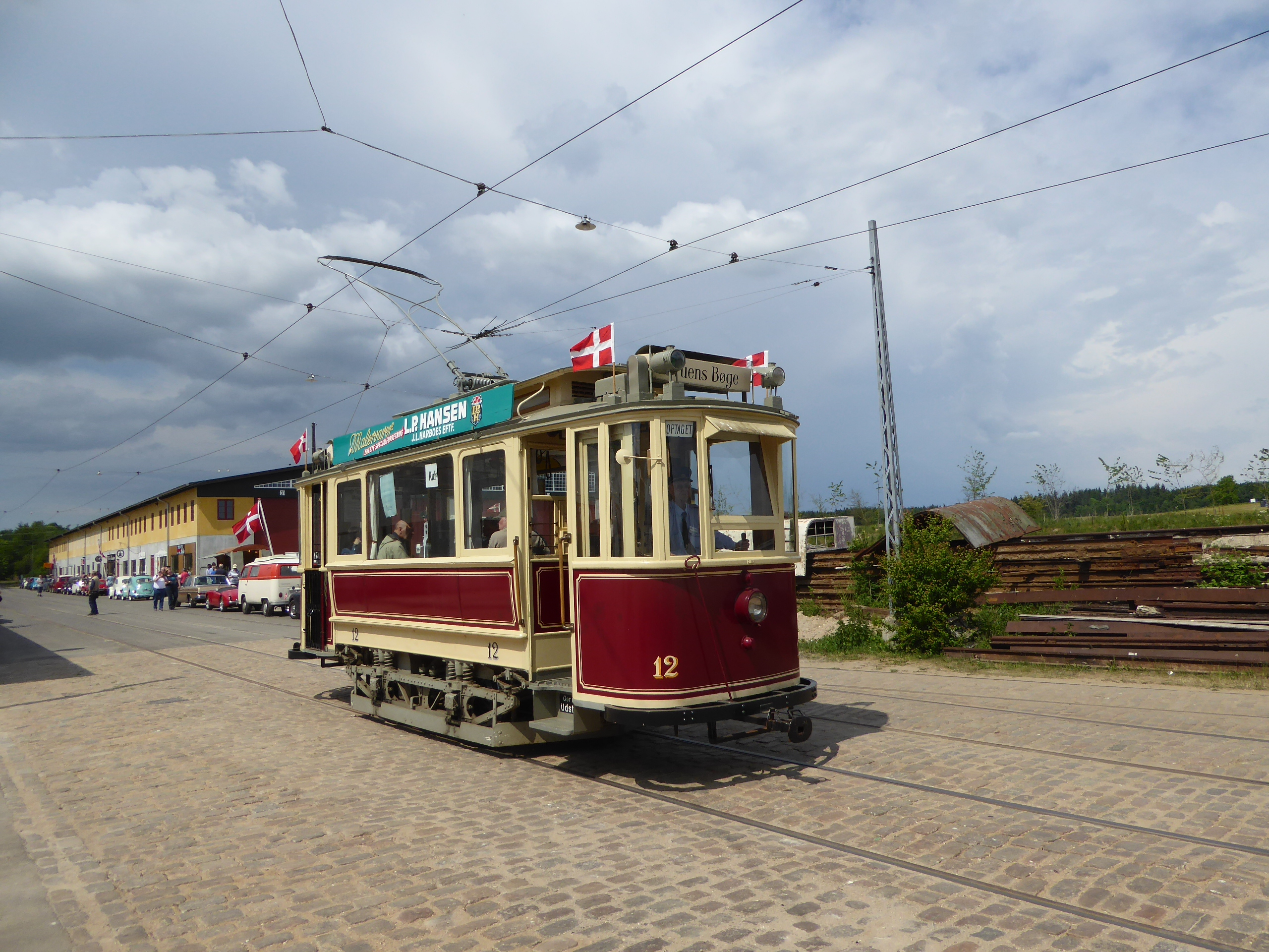 40 years anniversary of the tramway museum Sporvejsmuseet Skjoldenæsholm in Denmark. Old tram from Odense, OS 12 from 1913.